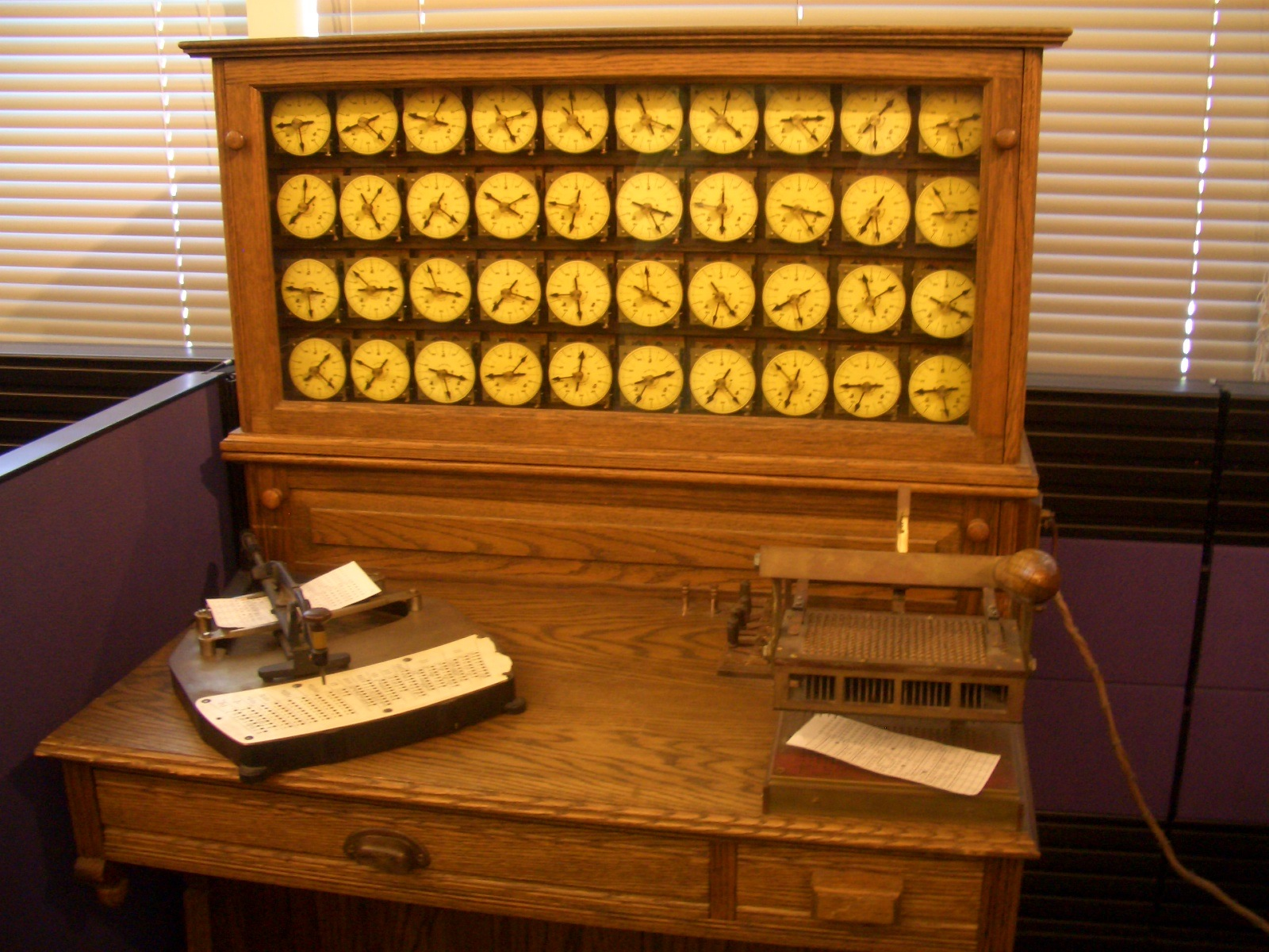 Herman Hollerith conceived of this machine when traveling on a train with a friend. He noticed that the conductor punched his ticket differently from his friend's, even though they were going to the same place. Hollerith asked the conductor why, and the conductor responded that the spaces on the ticket corresponded to hair color, eye color, height, and other characteristics of the passenger, so that people could not pass on their tickets. Hollerith thought the same thing would work for counting the census. Photos from a tour of the Computer History Museum in Mountain View. Thanks to Dick Guertin, our docent/leader, and John Toole, the CEO.